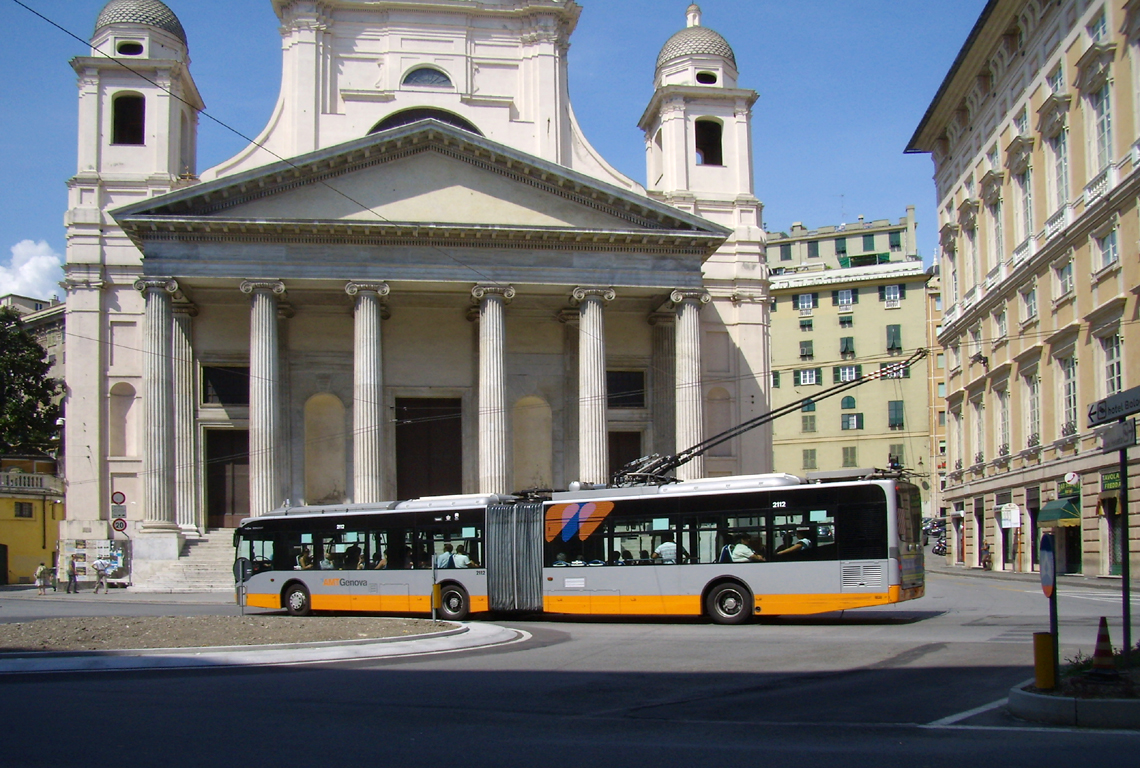 A Genova trolleybus 2112, a 2007 Van Hool AG300T, westbound at Piazza della Nunziata, on route 20 to Sampierdarena, which was converted trolleybuses in 2008.